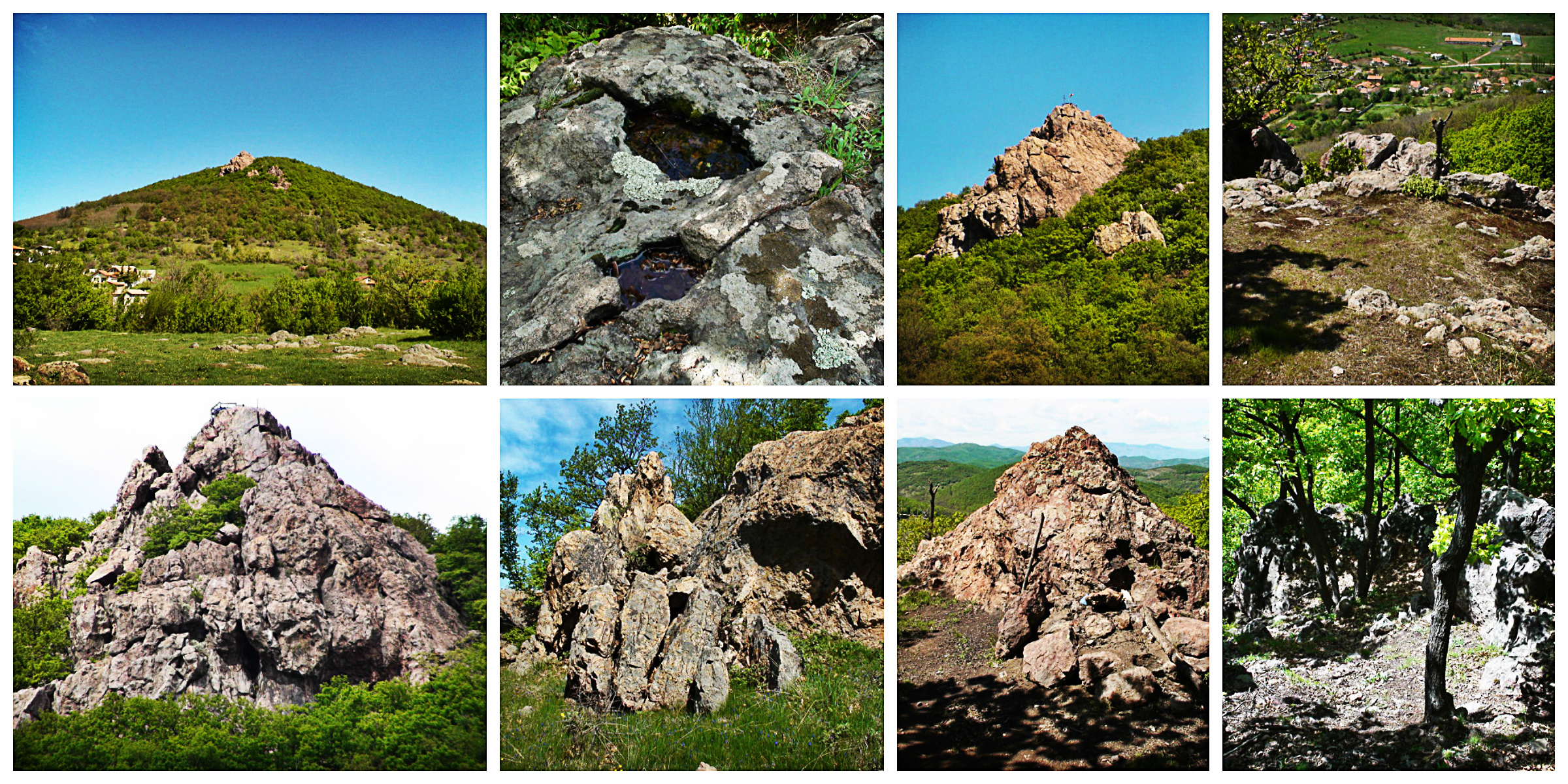 Garvanitza 01 Bryastovo Haskovo BG